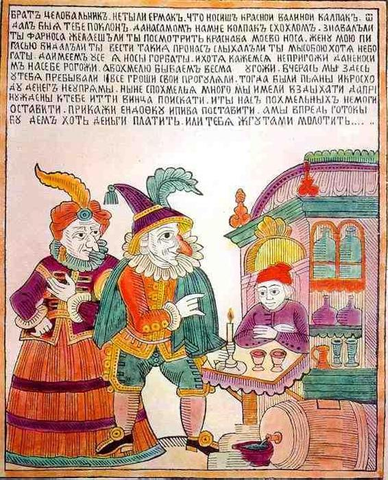 Farnos the Red Nose and his wife Pegasya. Russian humorous lubok